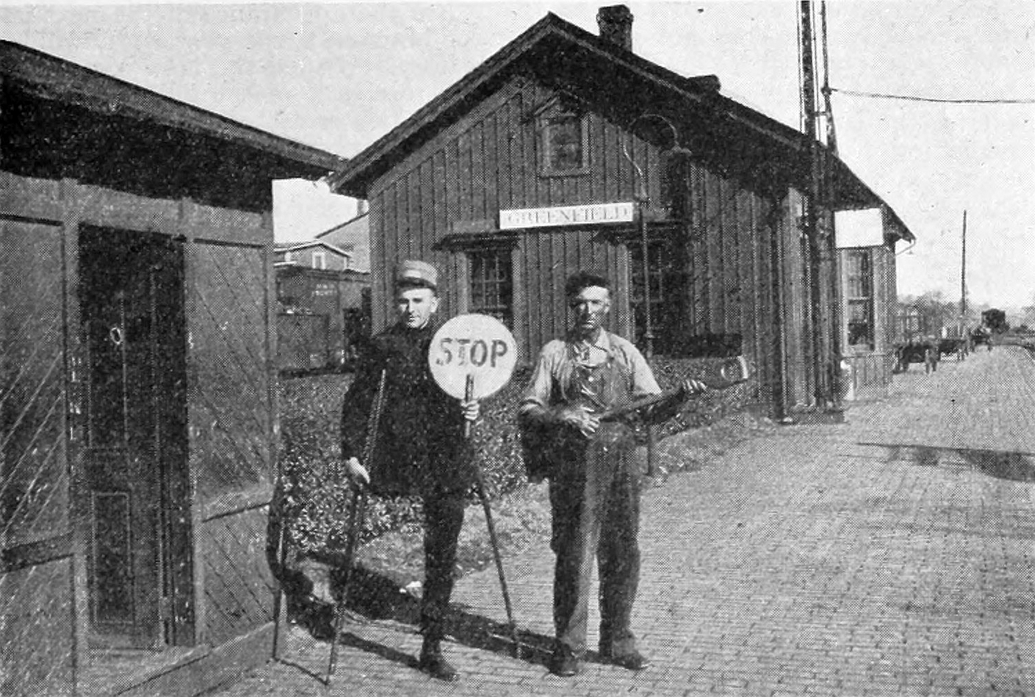 The crossing watchman stands with the coal shoveler at the train depot in Greenfield, Ohio.